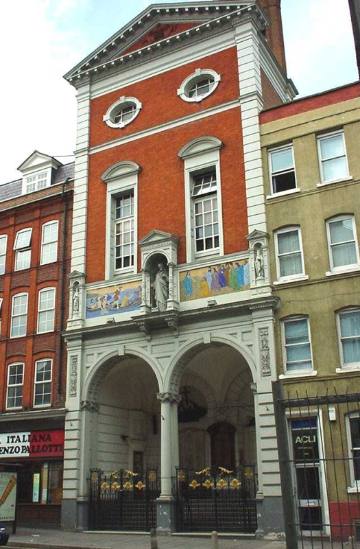 St Peters Italian Church, Clerkenwell, London